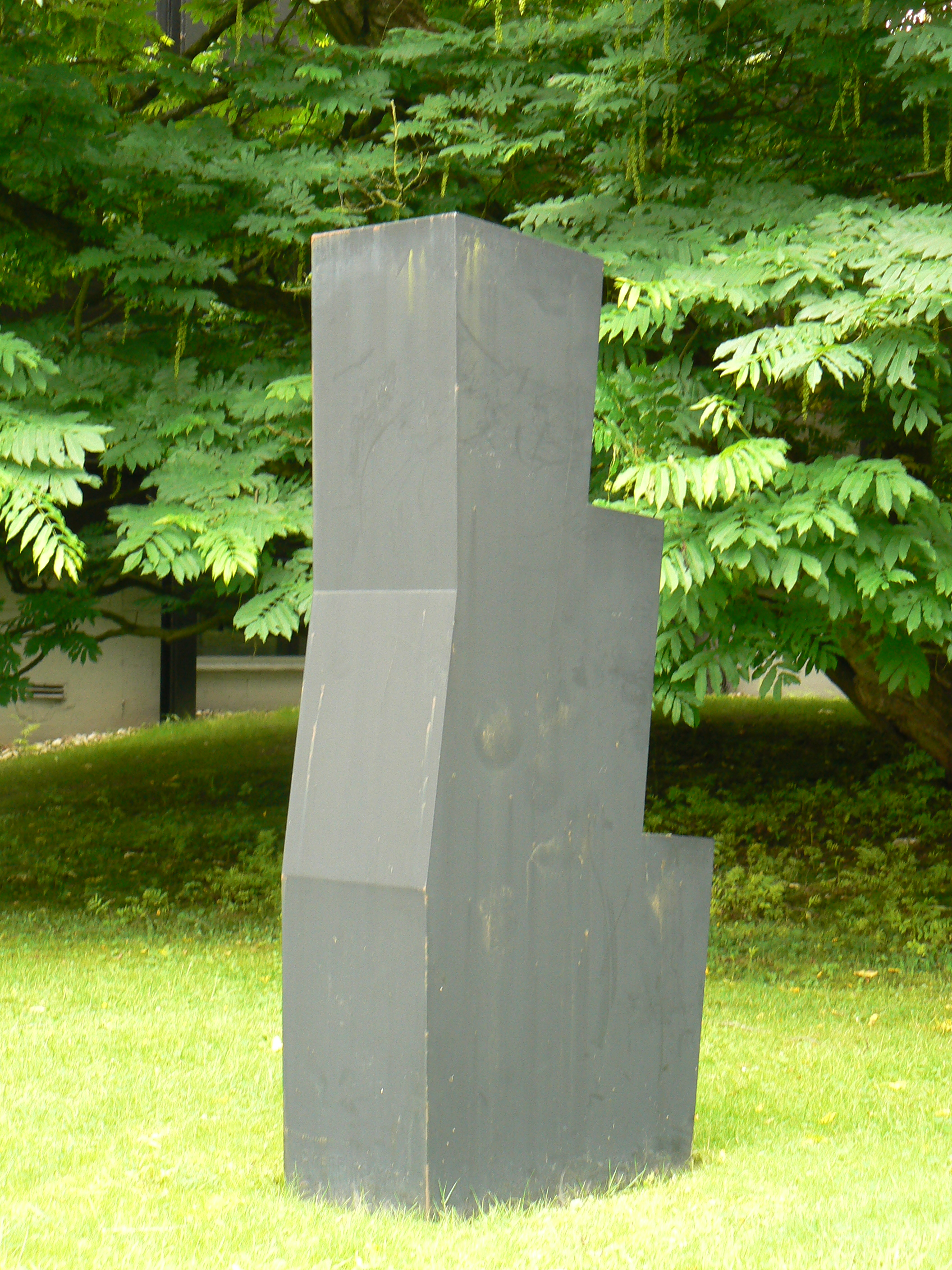 Sculpture in sculpturepark Quadrat Bottrop (Moderne Galerie) in Bottrop/Germany. Sculptor: Douglas Abdell Titel: Qurefe Aekyad (1981)